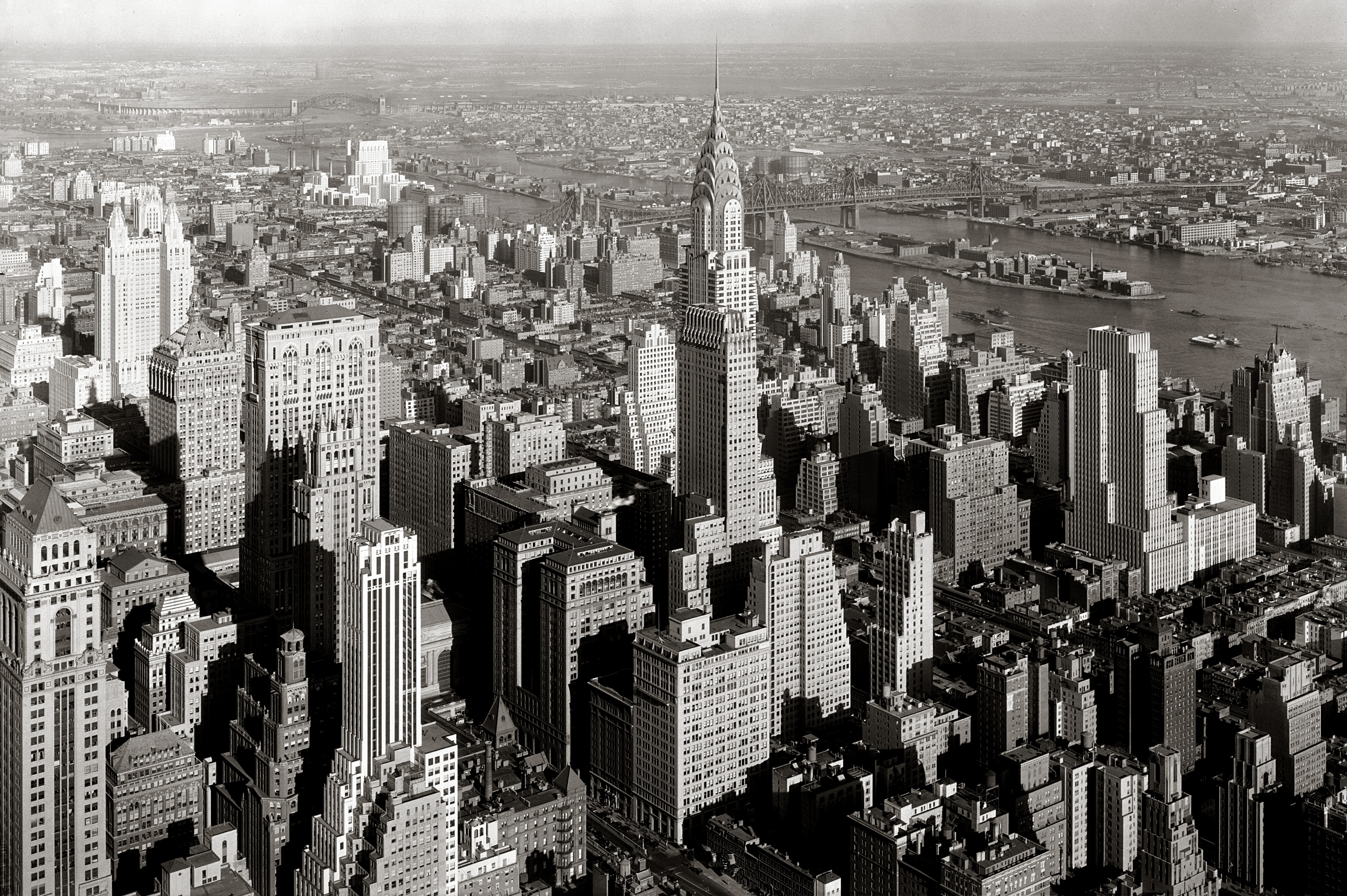 The skyline of Manhattan as viewed from the Empire State Building observatory. The Chrysler Building, Queensboro Bridge, and Roosevelt Island are a few of the landmarks visible.